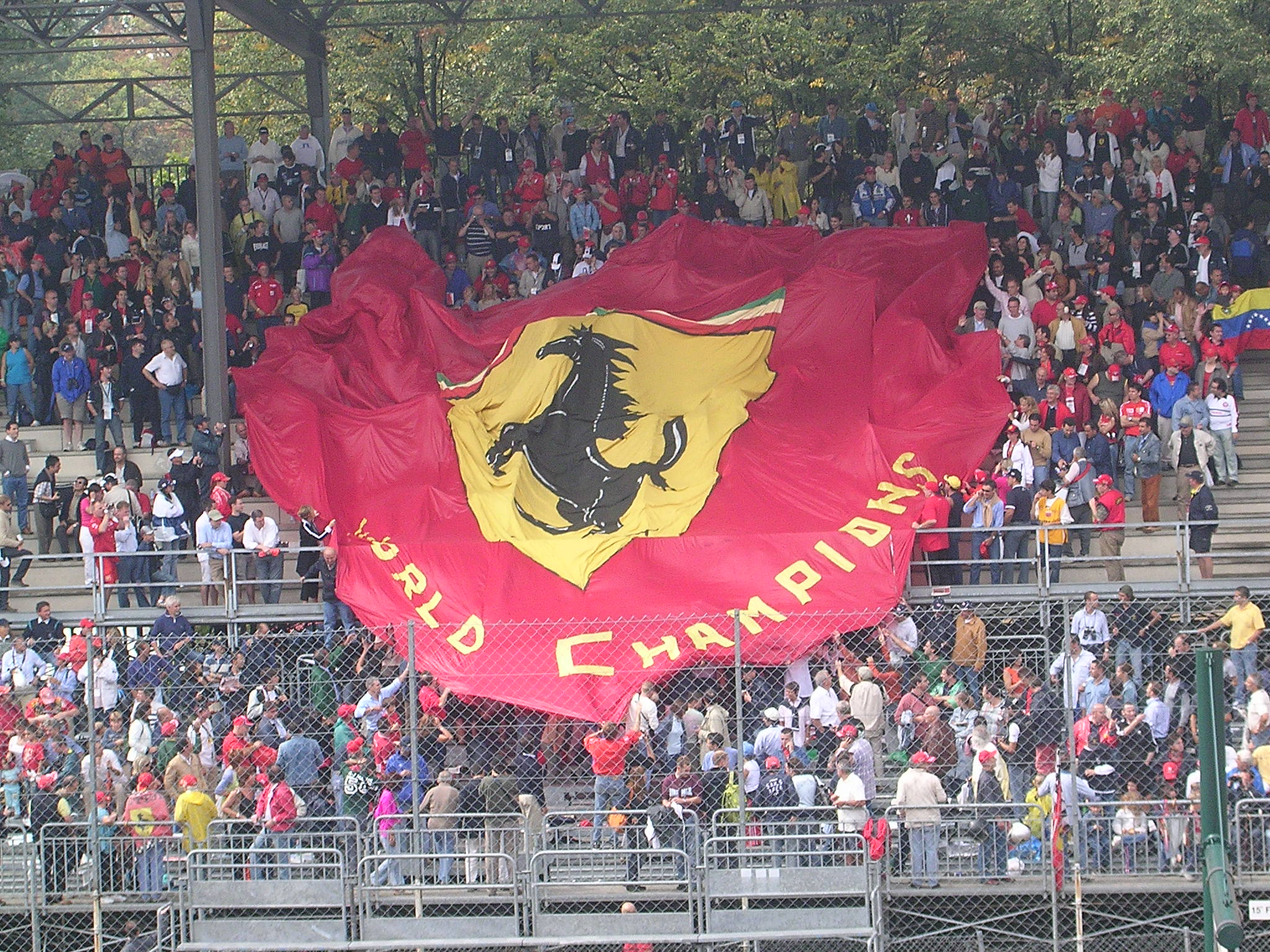 The Autrodomo Nazionale of Monza (italy) during a race in september 2004